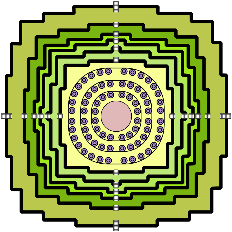 Borobudur ground plan